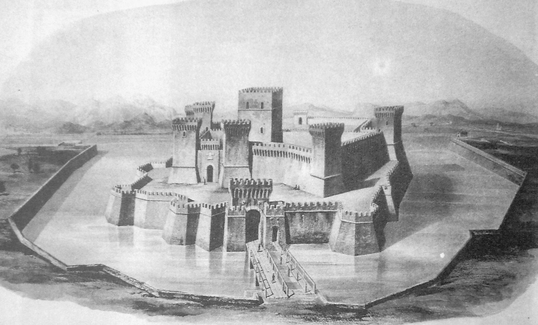 Guglielmo Meluzzi, Castel Sismondo